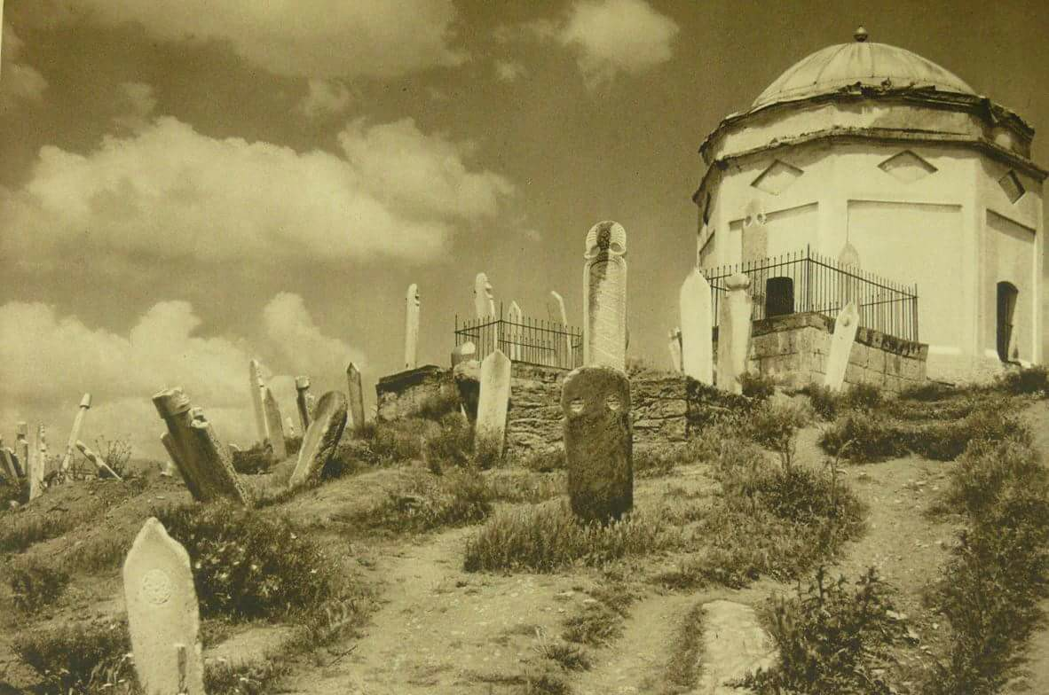 The türbe of Gazi Baba in Skopje, Macedonia